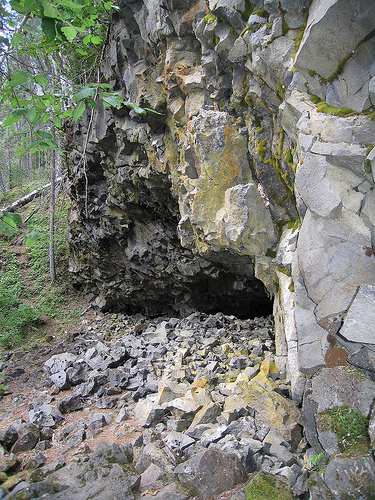 Columnar basalt of the Dragon's Tongue lava flow in Wells Gray Provincial Park